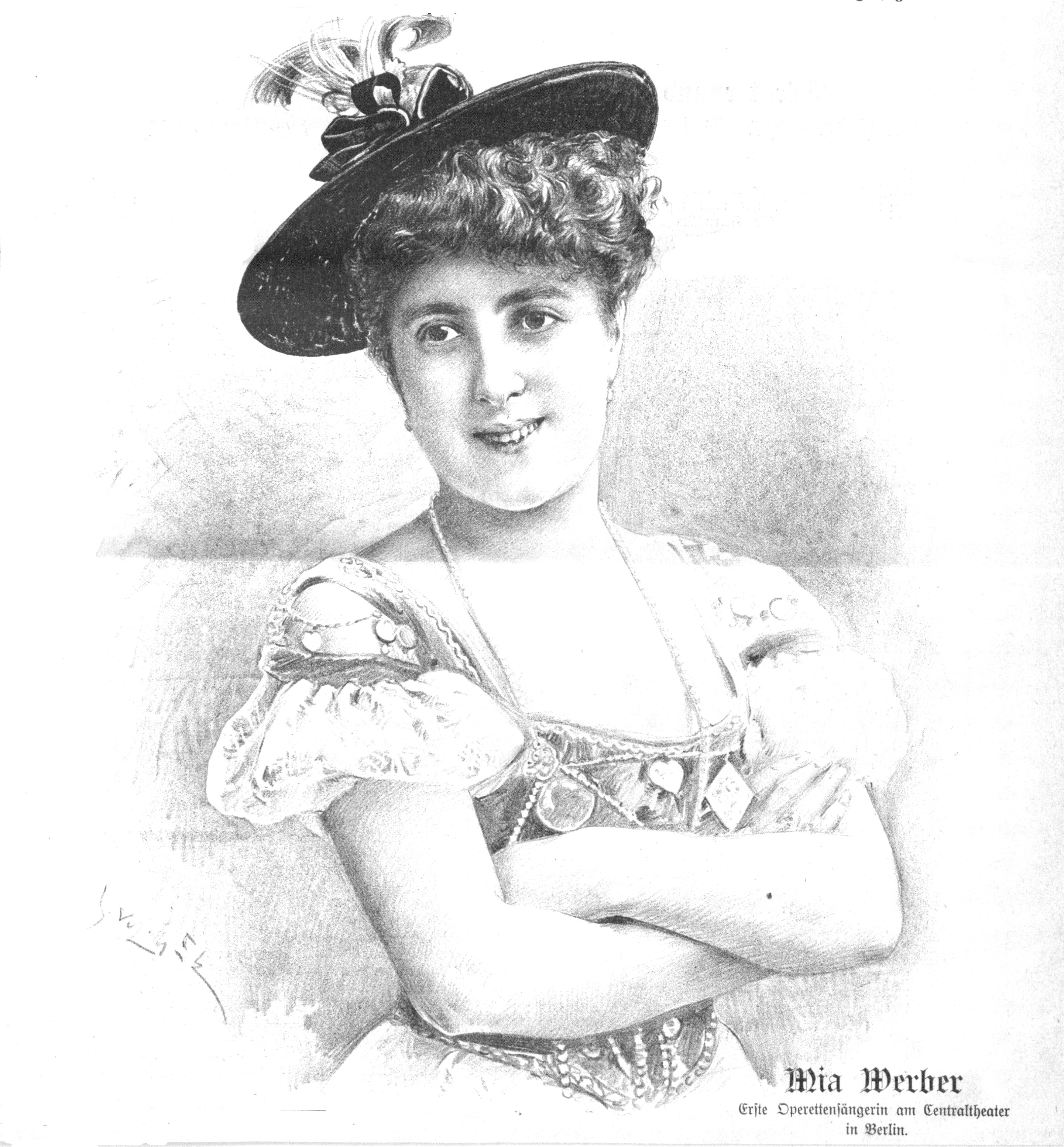 Portrait of Mia Werber (1876-1943), Austrian operette singer.